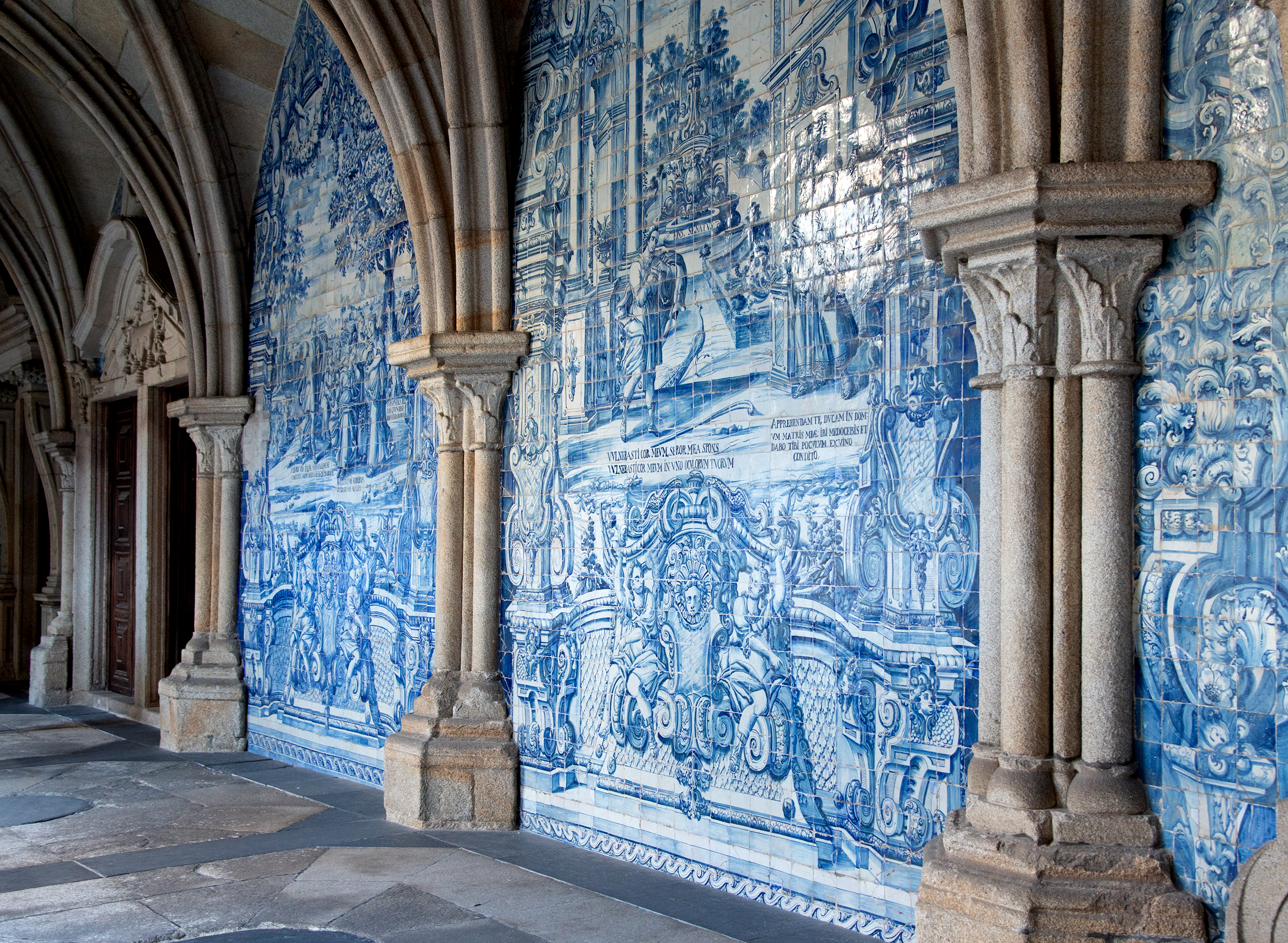 Azuelo tile mural and Gothic elements at Porto Cathedral, Portugal